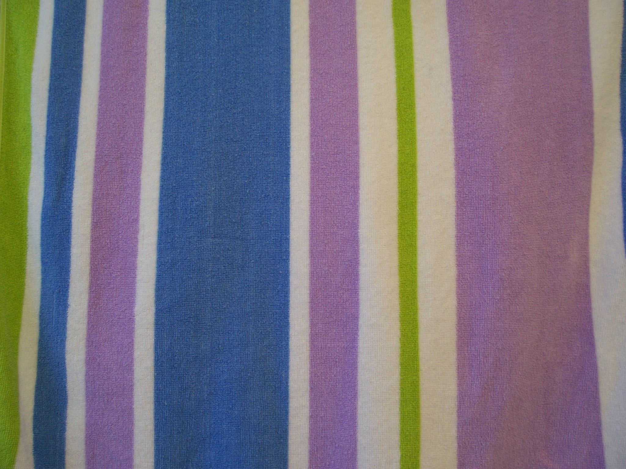 Towel with a nice pattern.